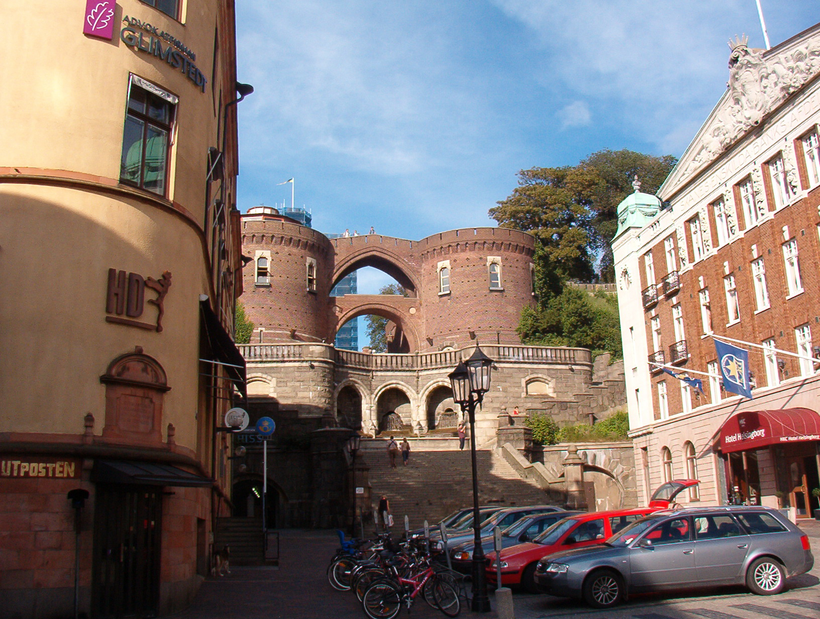 This is taken standing with the back to the sea side, very near the ferry terminals, in the city centre in Helsingborg, Sweden. The image comes straight from my camera, is taken with 96 bpi, and contains lots of other embedded information about camera specifics.